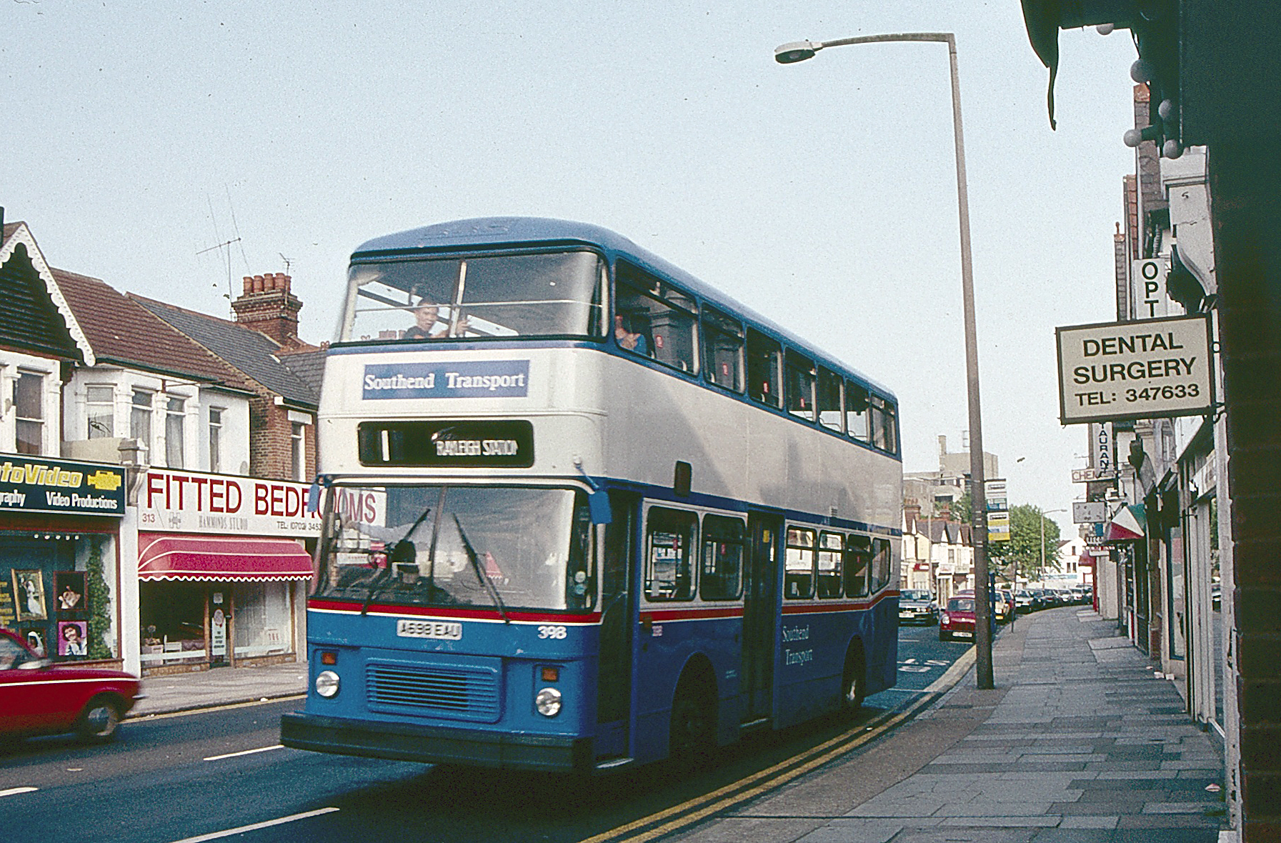 Westcliff London Road Southend Transport A698EAU